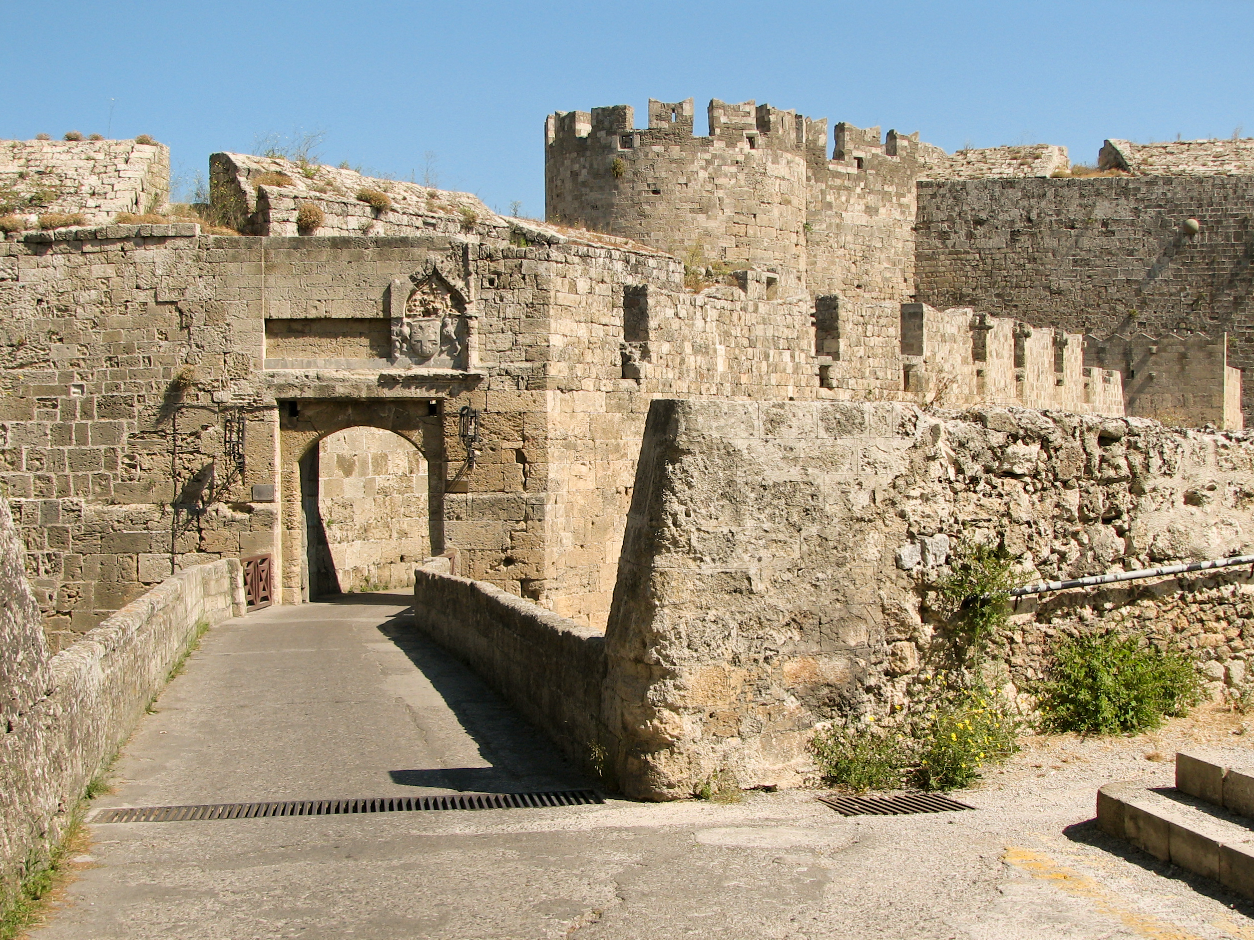 Rhodes old town, Rhodes, Greece